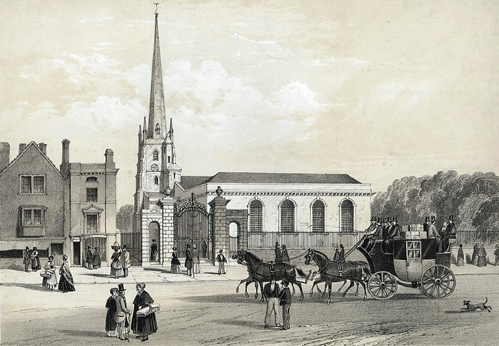 St Marys Church Monmouth